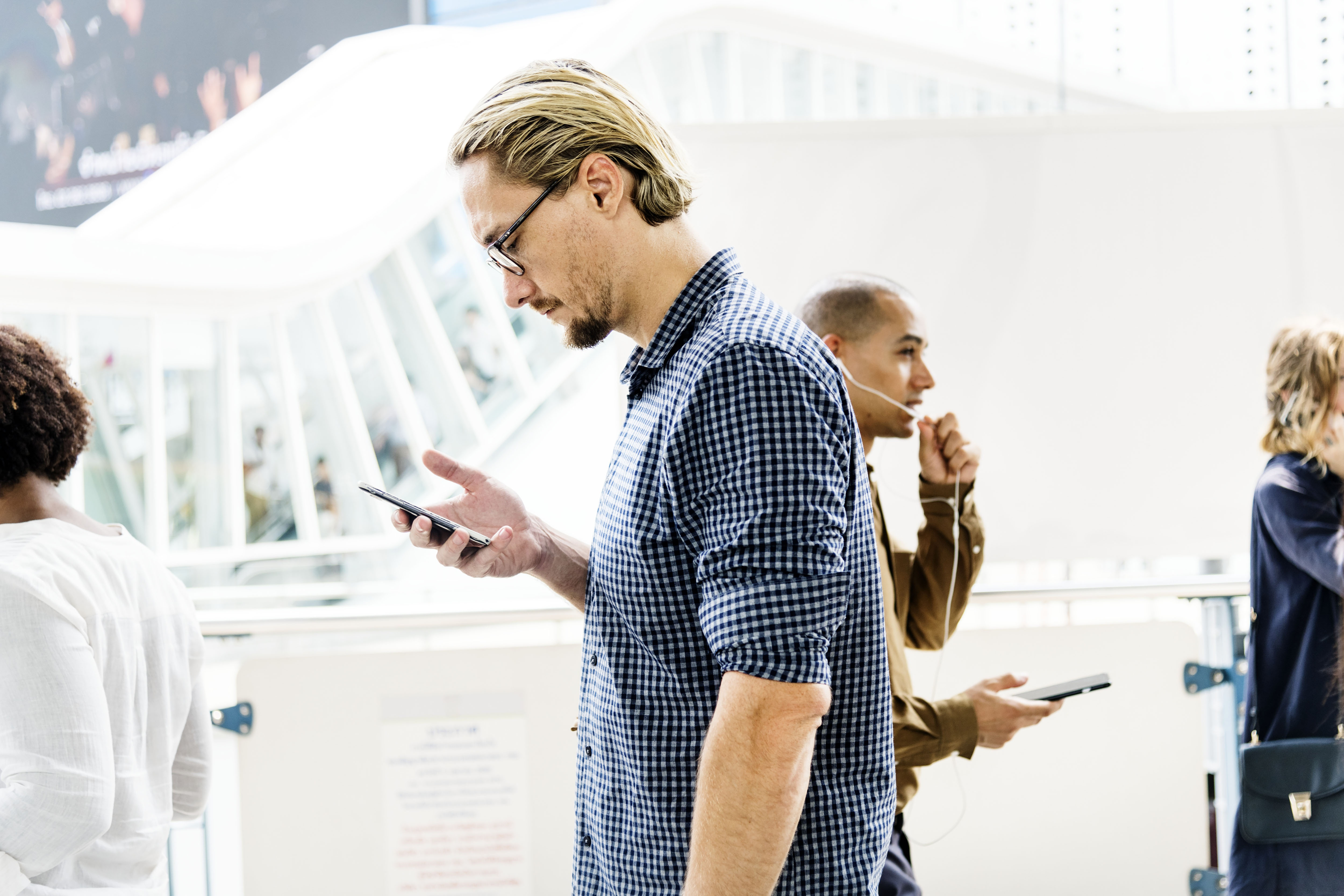 People using phones whilst walking